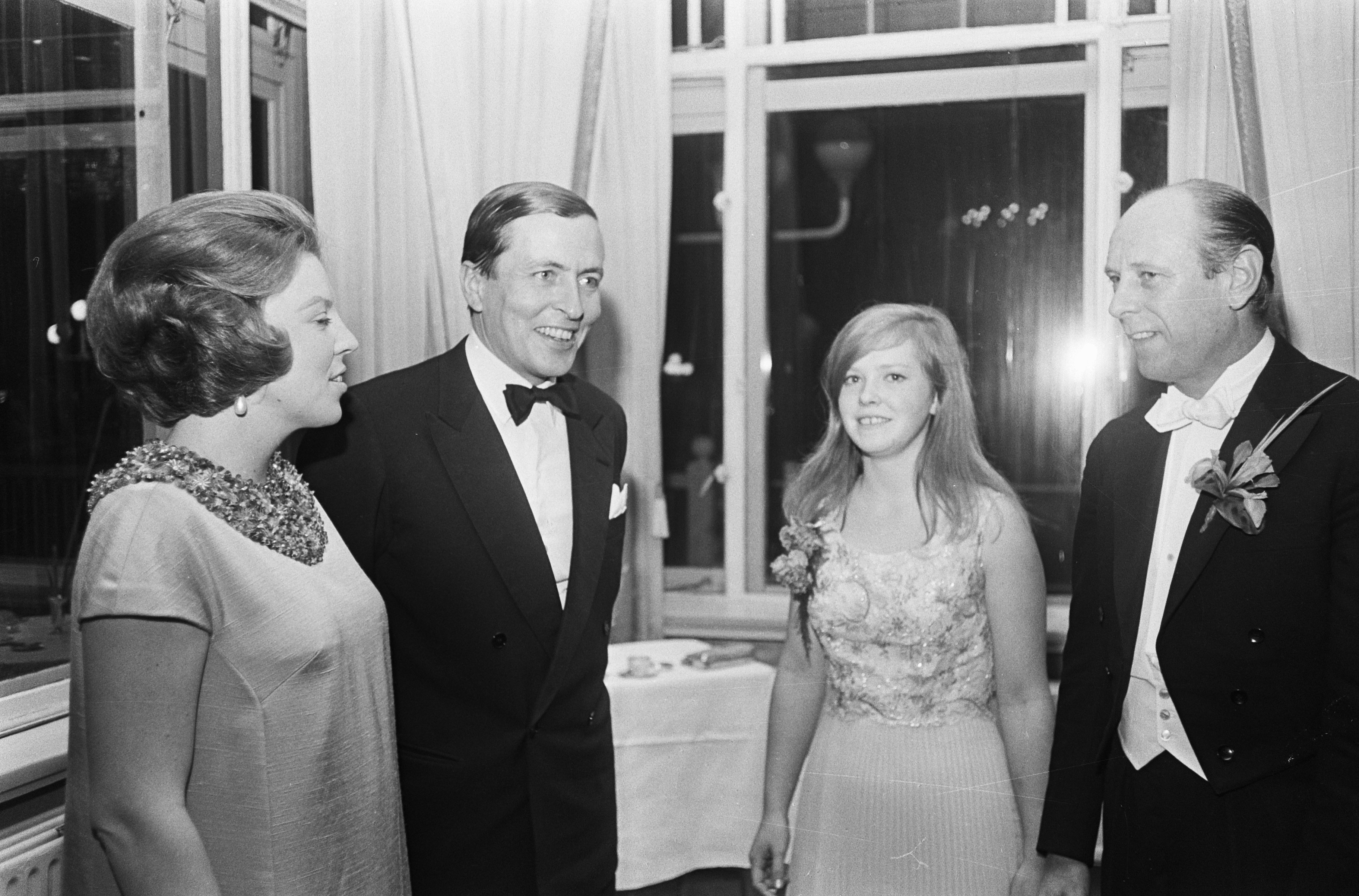 Emmy Verhey and conductor Jan Brussen with Princes Beatrix en Prince Claus after a Gala concert